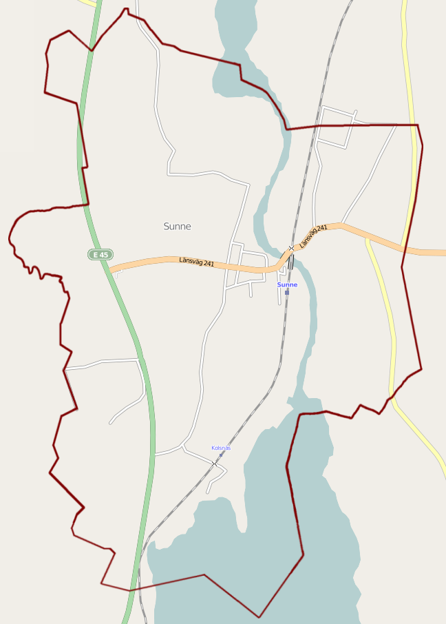 old borders of Sunne köping